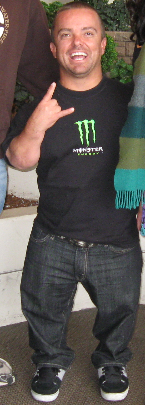 I saw Jason Acuña outside of the Waterfront Mariott in Portland, OR. on August 15, 2009. I asked if my sister and I could take a picture with him and he agreed. I asked him why he was in Portland and I believe he said that he was there filming for a TV show.